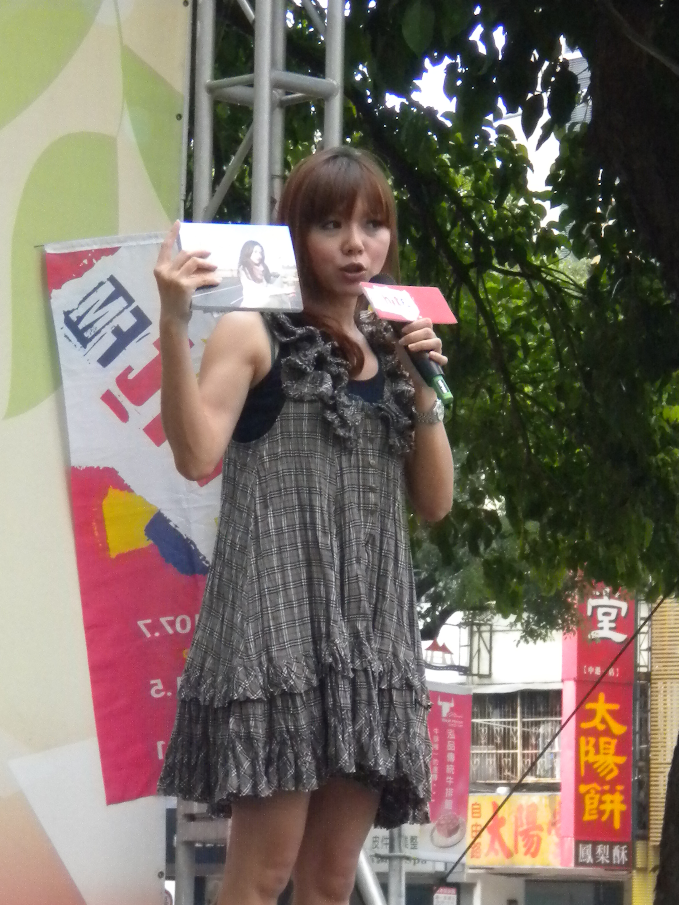 《HitFM》DJ-cherry